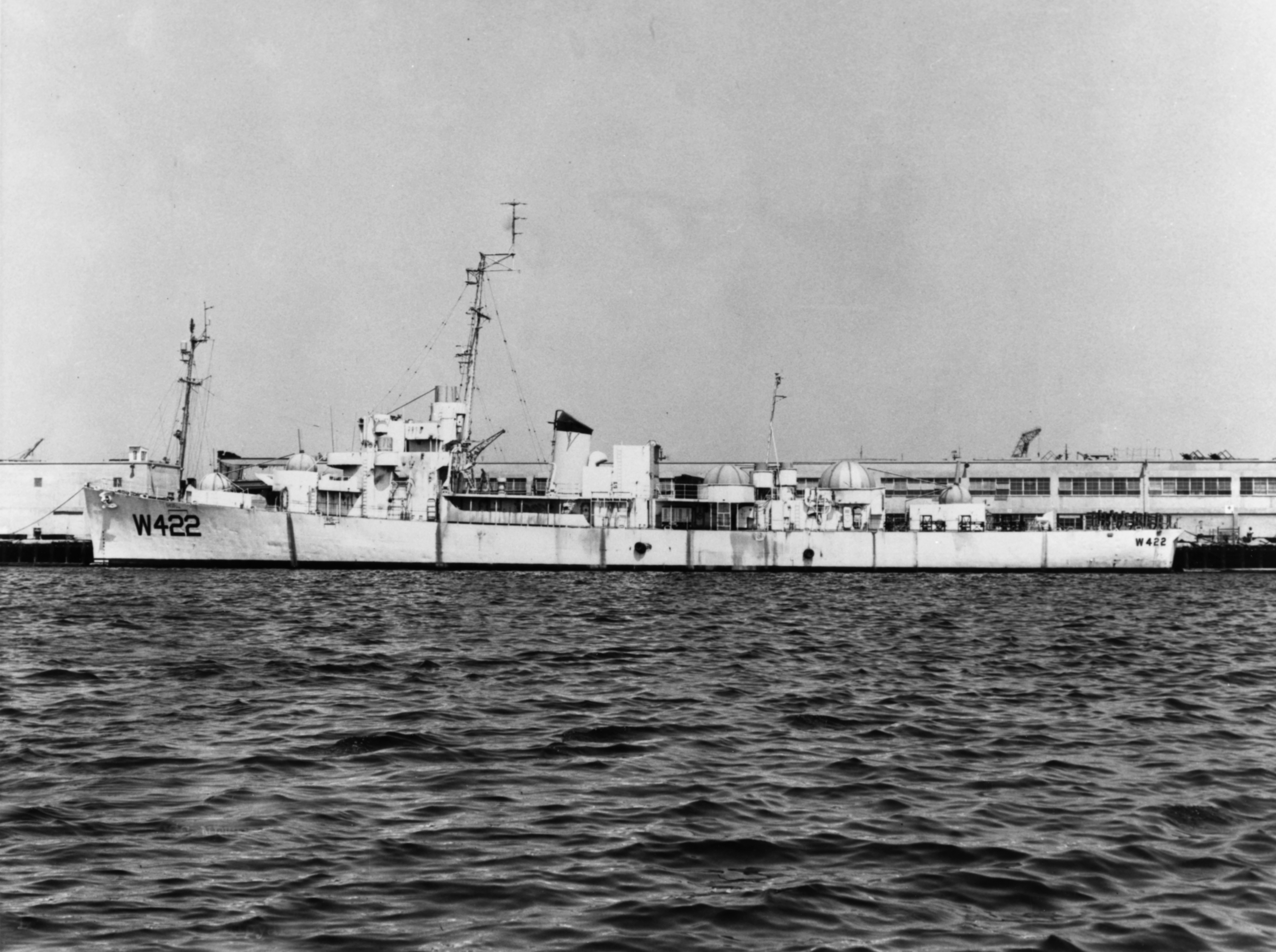 The U.S. Navy destroyer escort USS Newell (DE-322) at the Long Beach Naval Shipyard, California (USA), awaiting conversion to a radar picket ship (DER), 20 August 1956. She is wearing U.S. Coast Guard markings, used during her service as USCGC Newell (WDE-422) in 1951-1954.